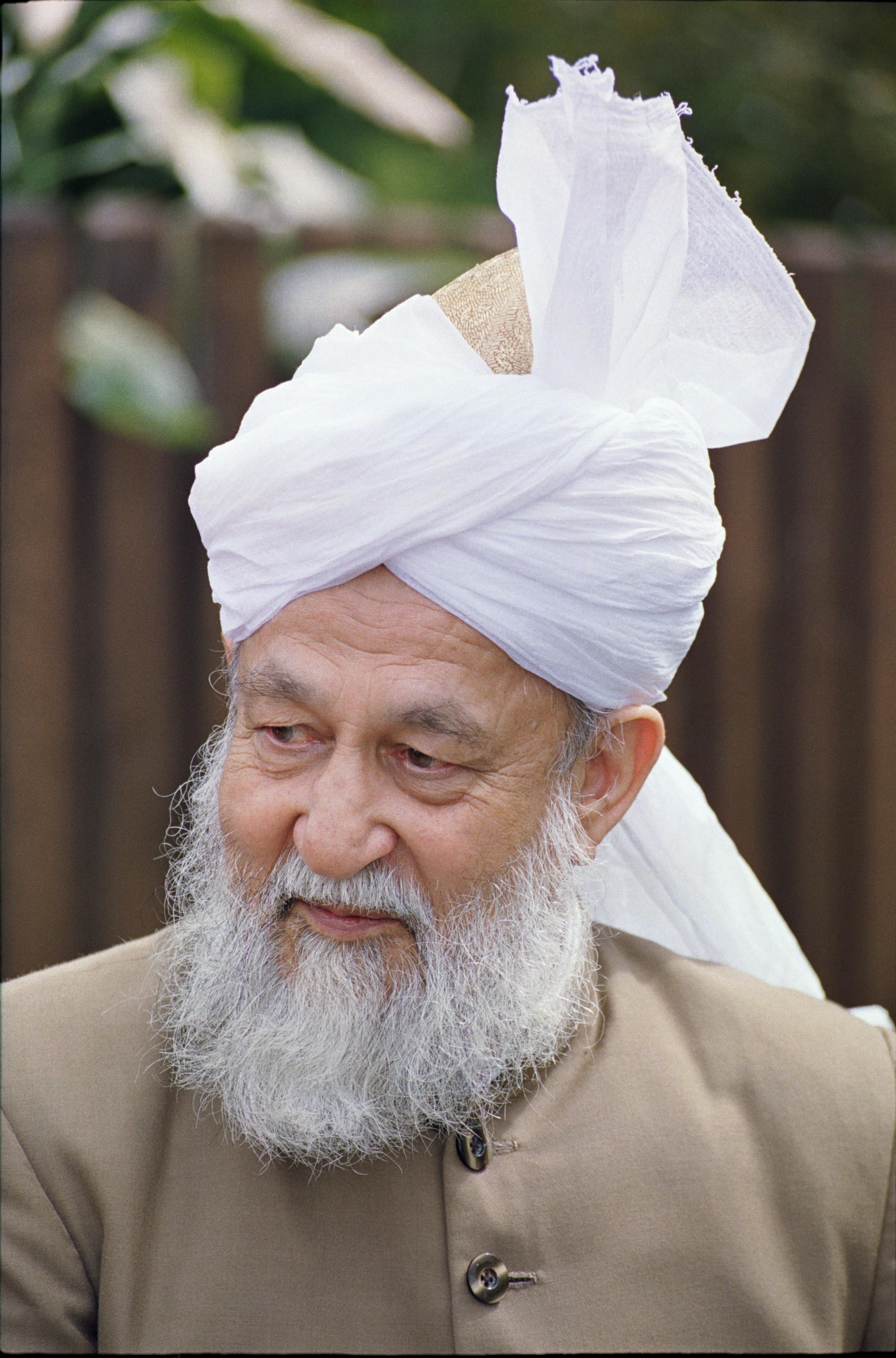 Mirza Tahir Ahmad - Khalifatul Masih IV, (photograph taken in Surrey - united Kingdom).